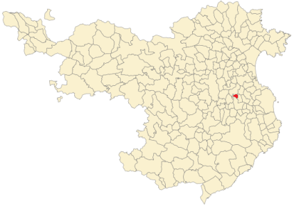 Colomers